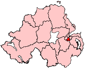 image based on those created by User:Keith Edkins